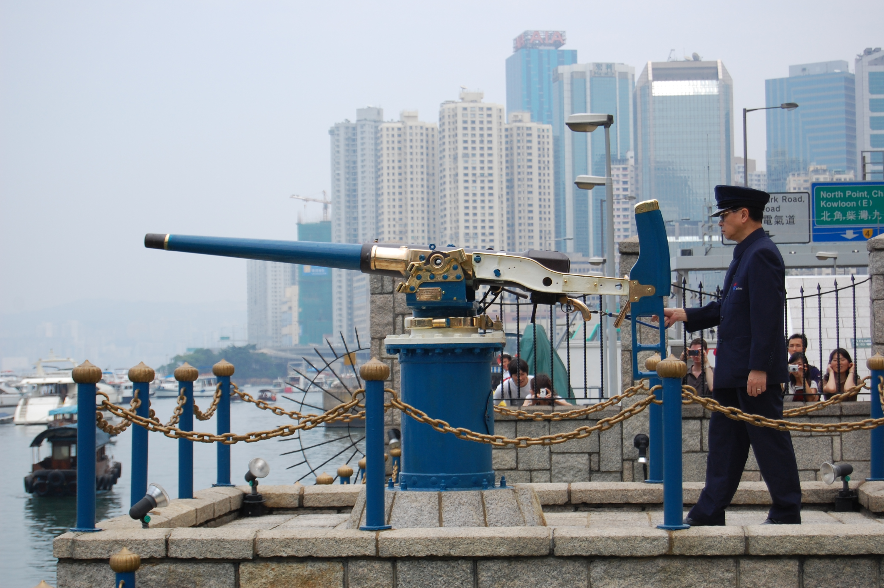 Firing of the Noonday Gun